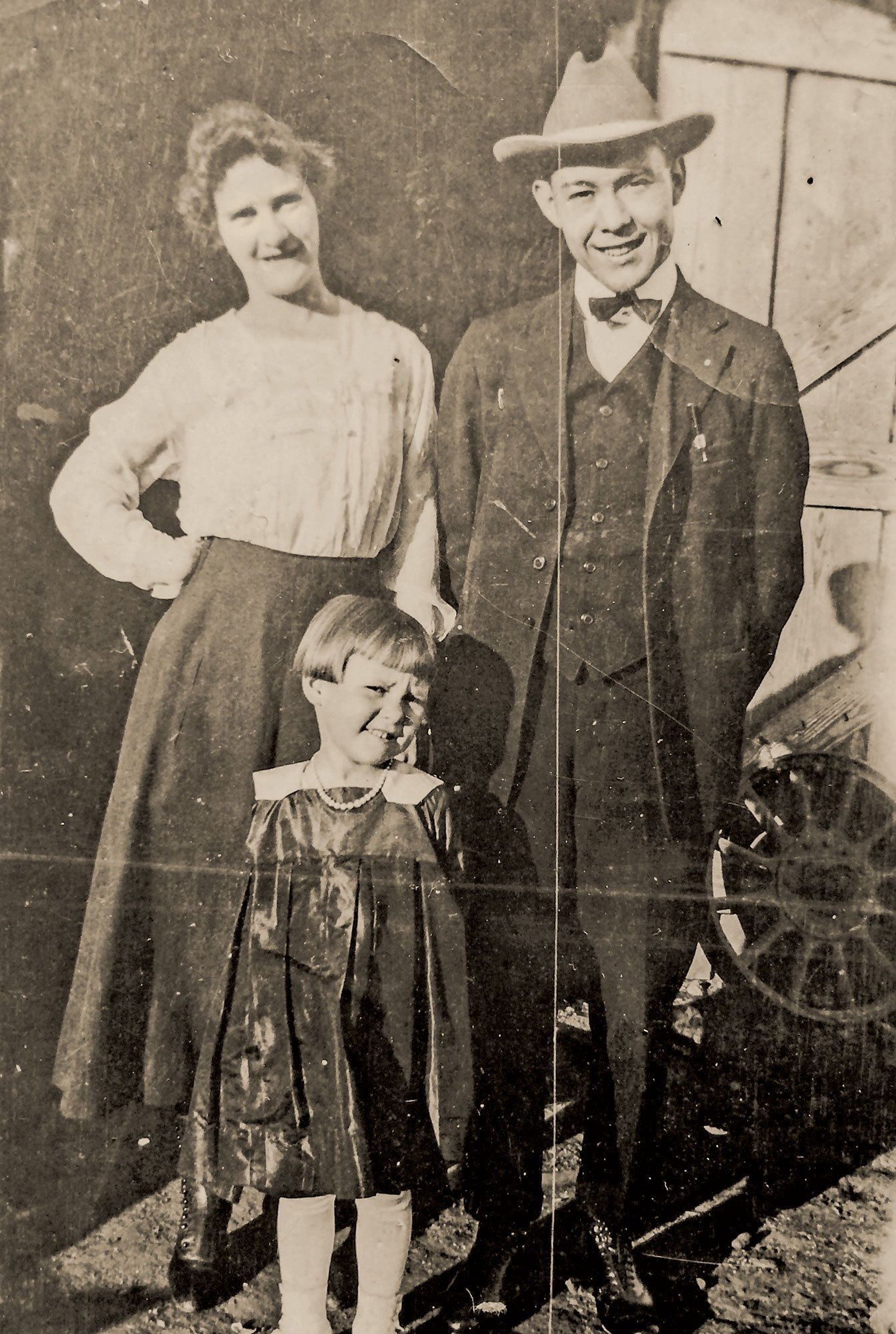 Plennie Lawrence Wingo with his wife, Idella, and daughter, Vivian, taken around 1919